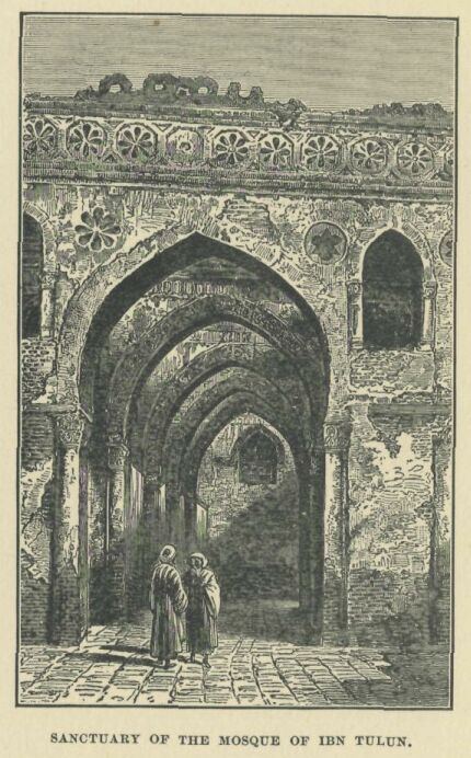 Drawing of the Sanctuary of the Mosque of Ibn Tulun